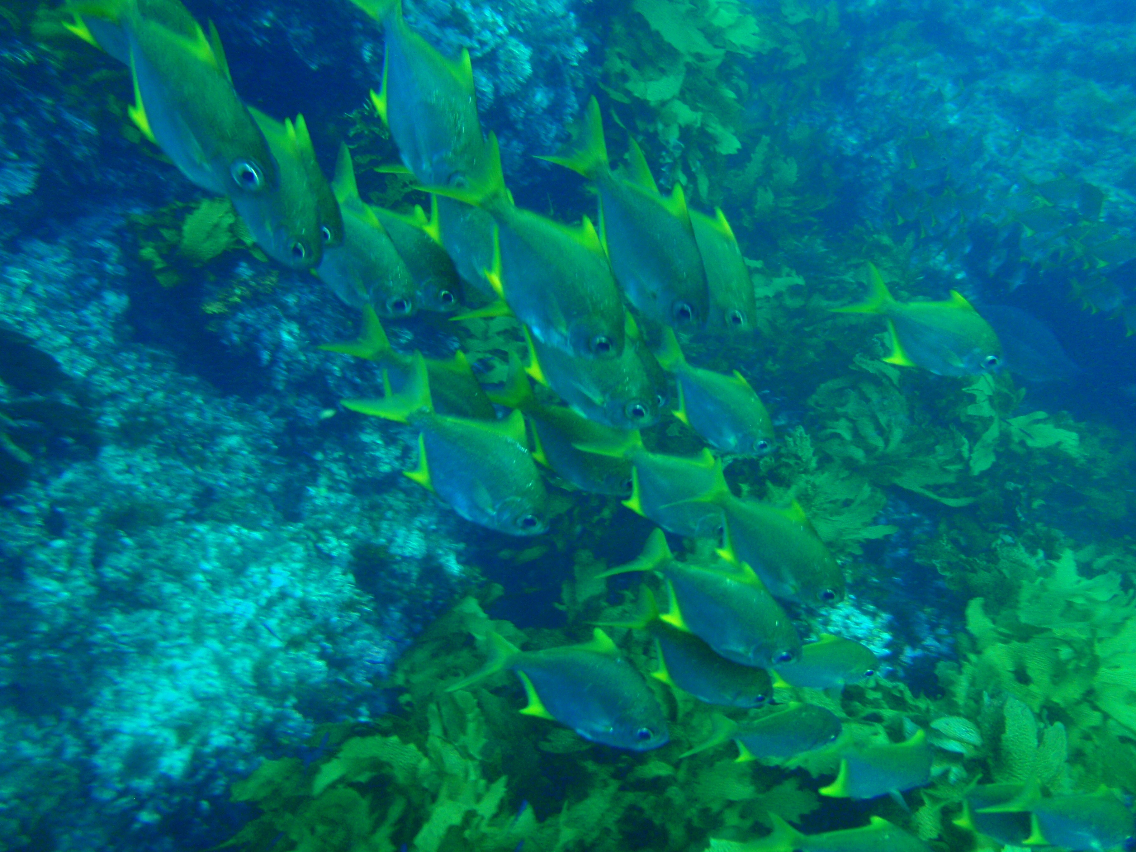 Woodwards Pomfret at Rottnest Island